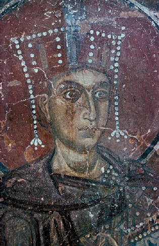 The fresco of Solomon in Saint Sophia Cathedral of Novgorod